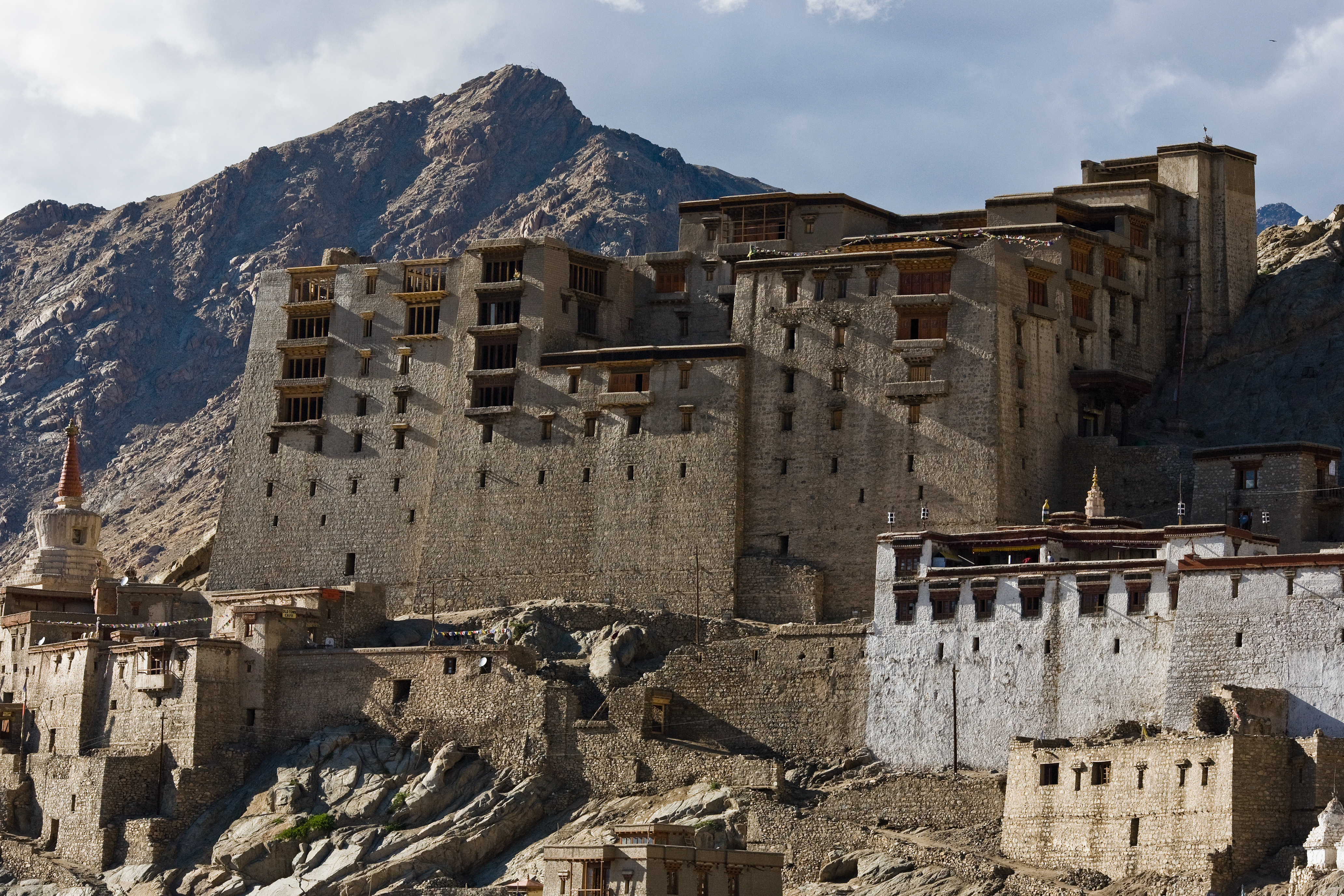 Leh Palace